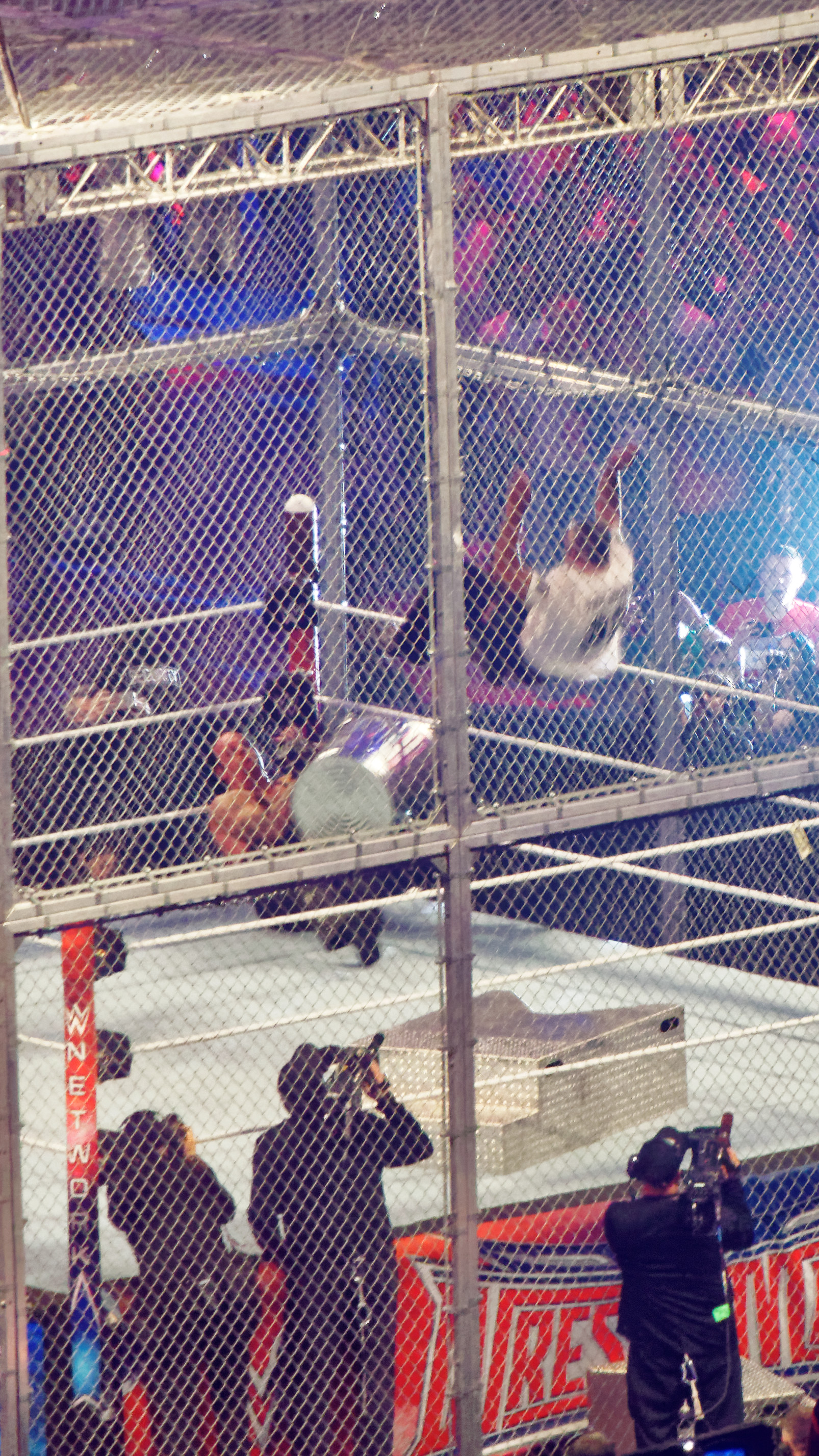 WrestleMania 32 was the thirty-second annual WrestleMania professional wrestling pay-per-view (PPV) event produced by WWE. It took place on April 3, 2016, at AT&T Stadium in Arlington, Texas. Twelve matches were contested on the card (with three matches occurring on the WrestleMania Kickoff pre-show - two airing live on the USA Network, which televised the second hour of the pre-show). The Undertaker def. (pin) Shane McMahon (in 30:02) Type of match : 'Hell In A Cell' Rating : **1/2